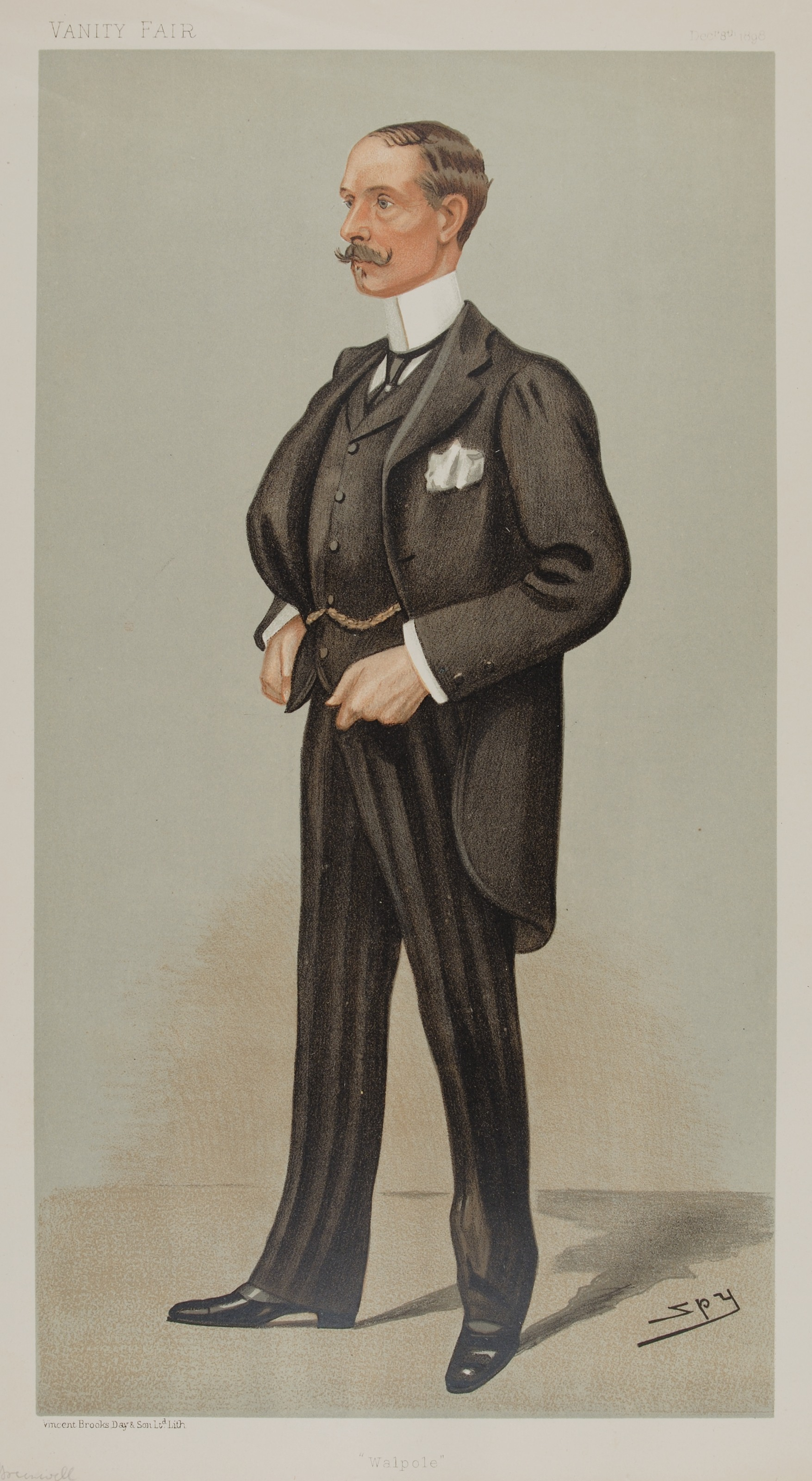 Men of the Day No. 731: Caricature of Mr Walpole Greenwell. Caption read "Walpole".